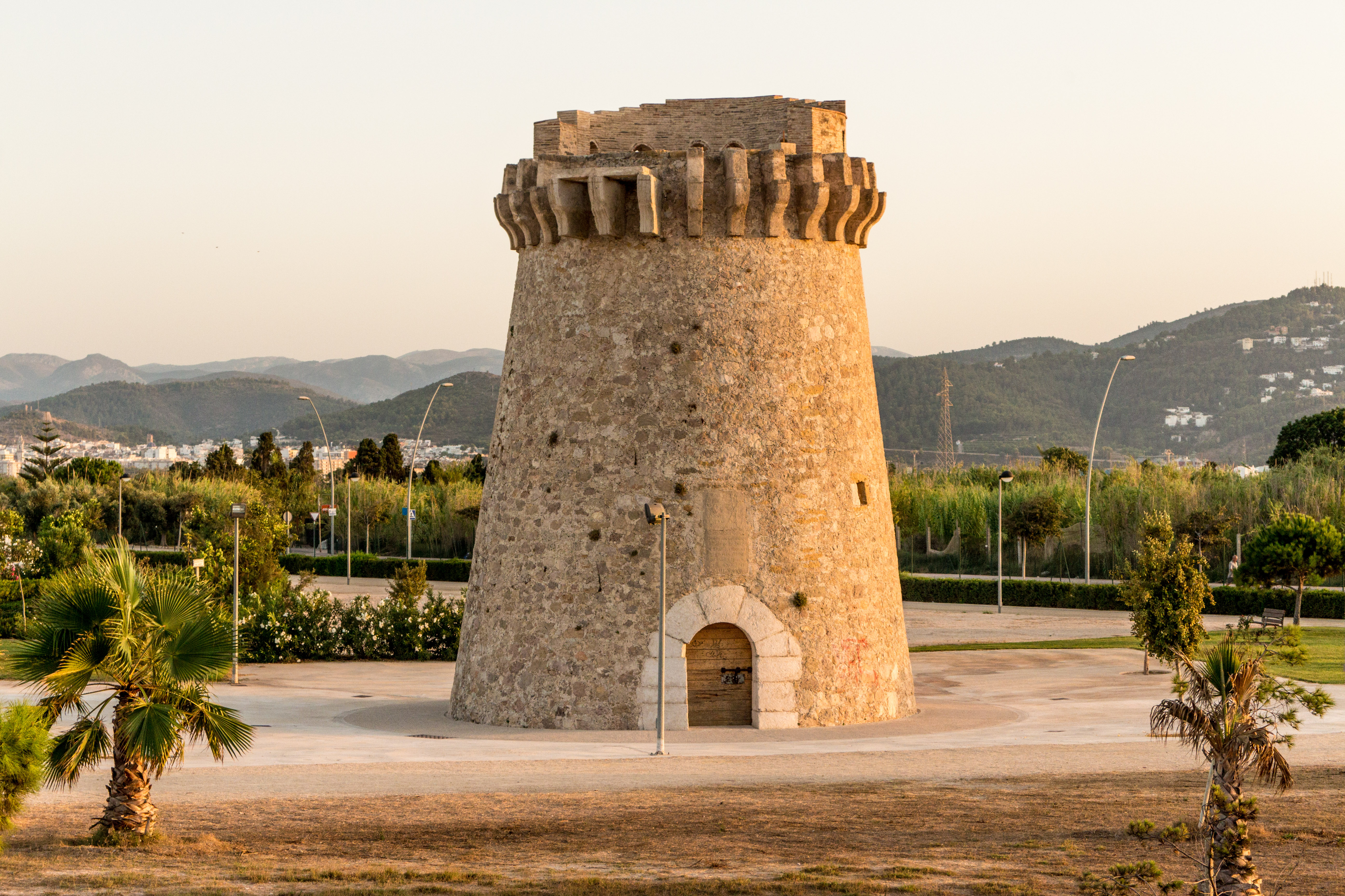 Watchtower in Piles, Valencia